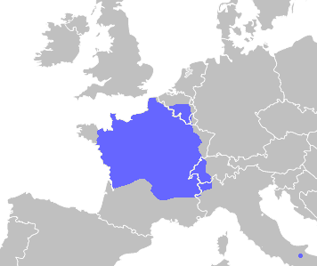 Approximate historical regions of development of Galo-Romance languages in Western Europe